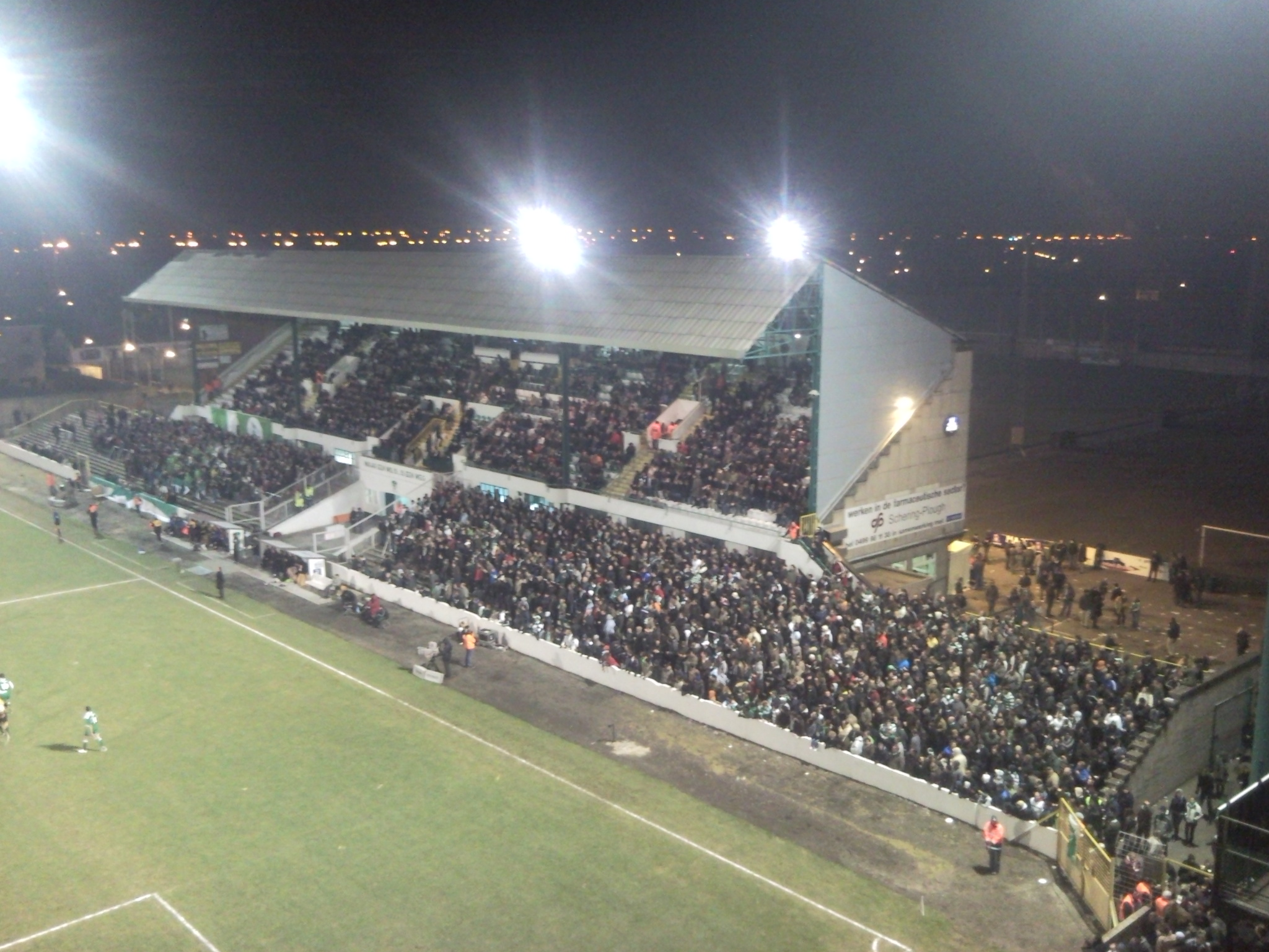 Racing Mechelen - Lierse 1-0